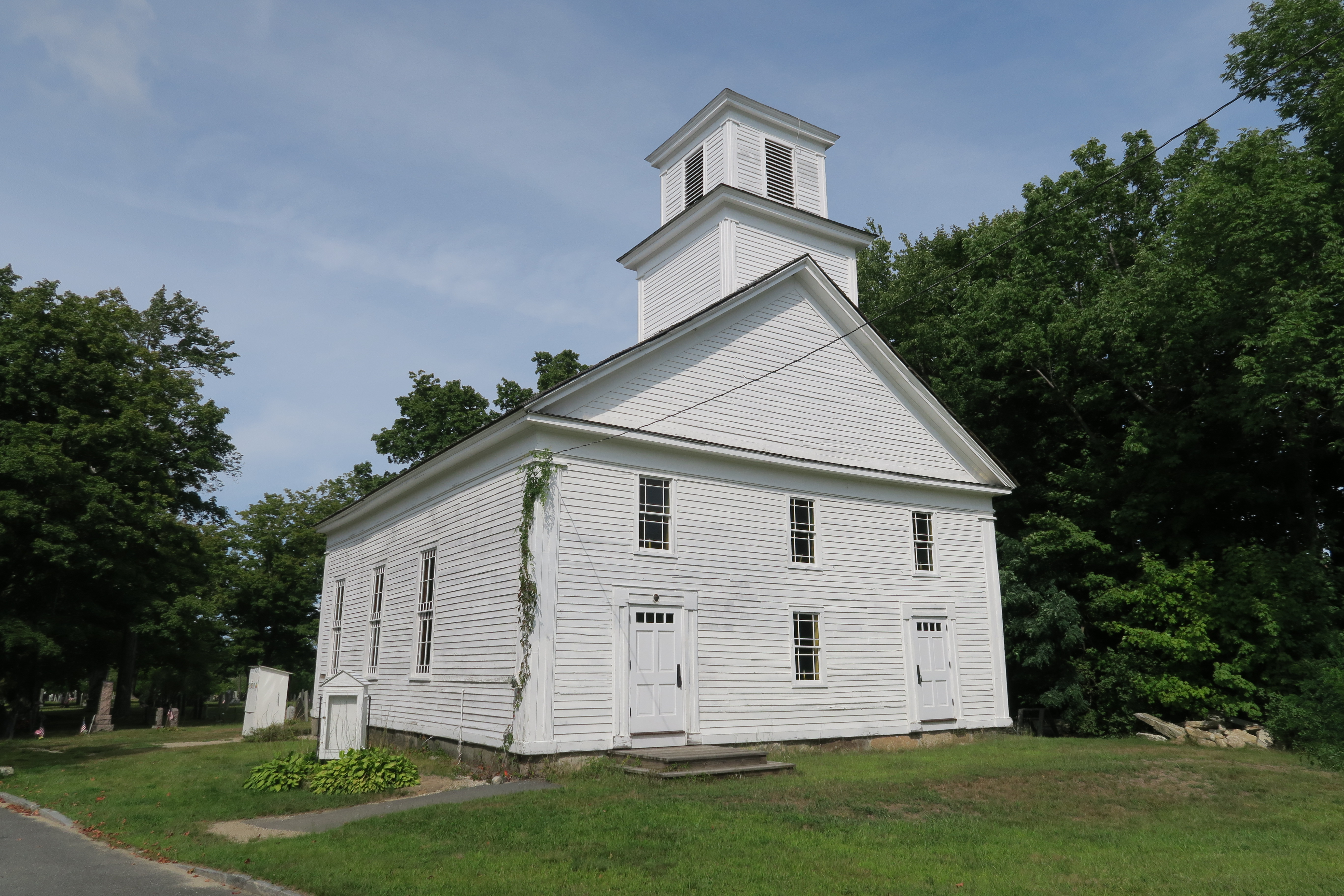 Meetinghouse, August 2015, Wendell Massachusetts